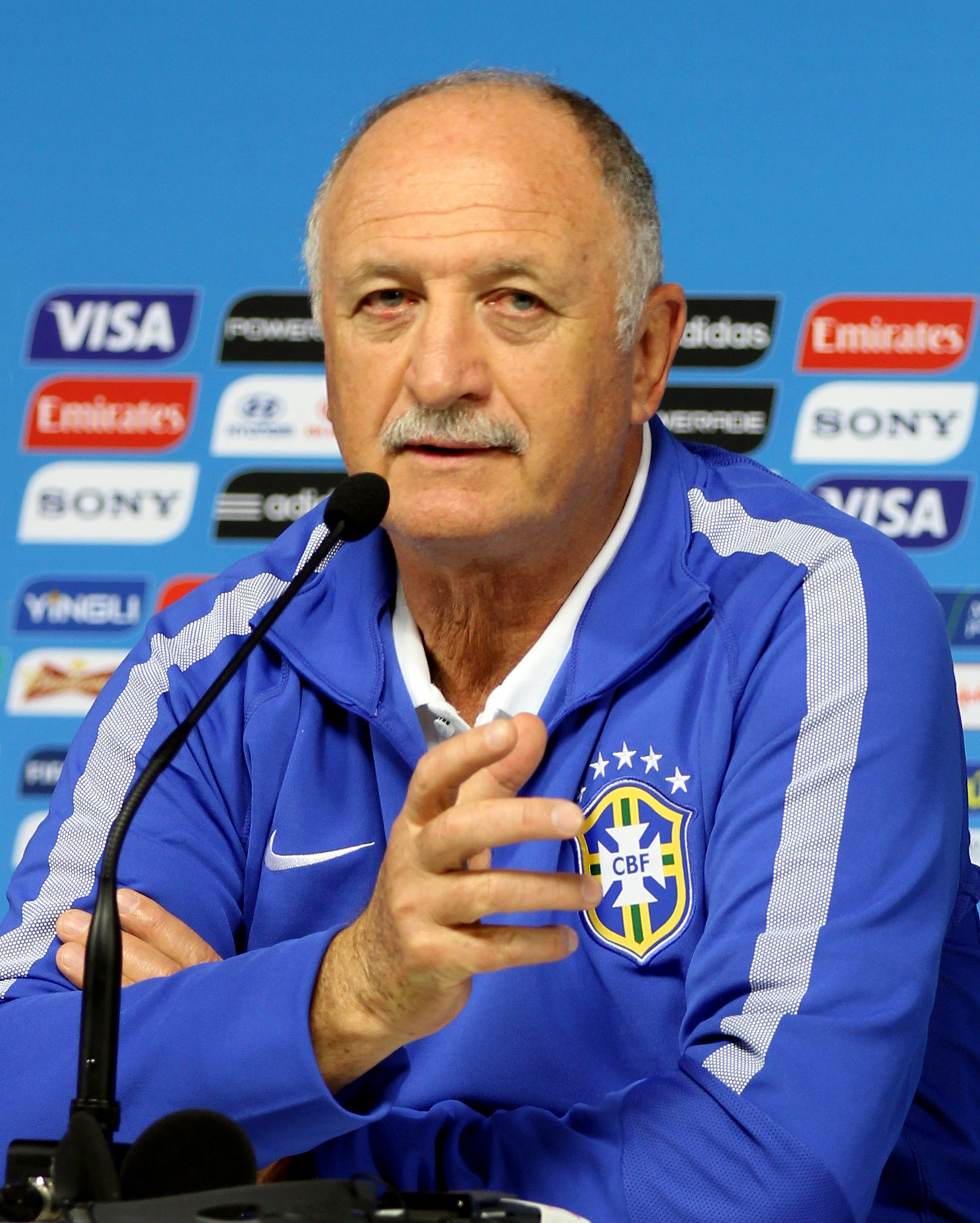 Felipão, Brazilian Football Coach